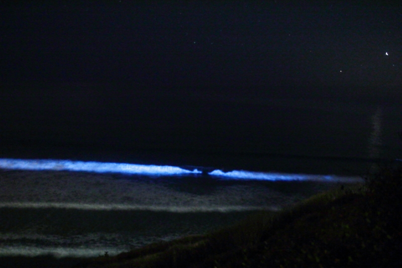 Lingulodinium Polyedrum is bioluminescing in surf. Shot at Scripps Institution of Oceanography.